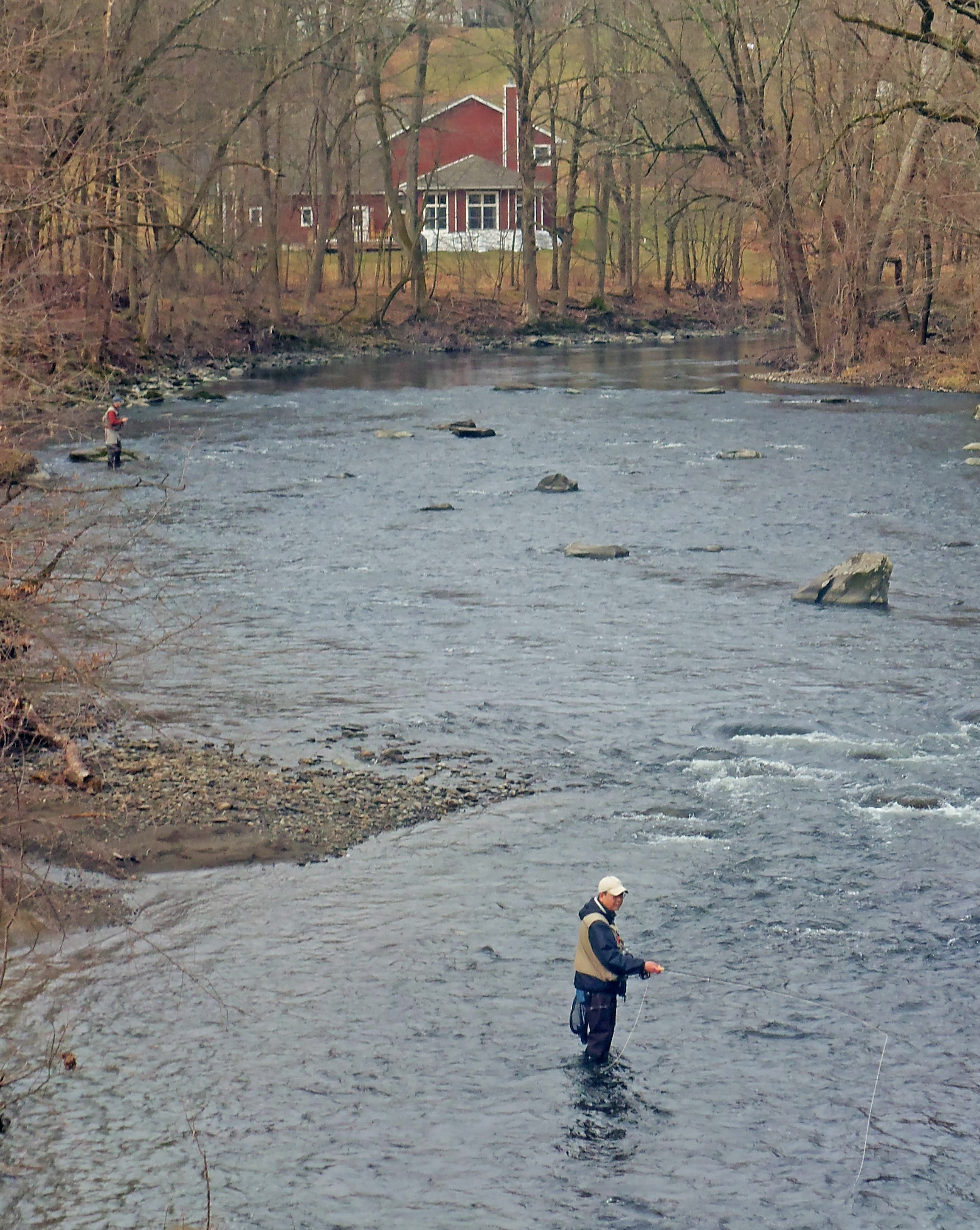 Fly fishermen casting for trout on Moodna Creek at its confluence with Woodbury Creek near Mountainville, NY, USA, on the opening day of trout season 2013.